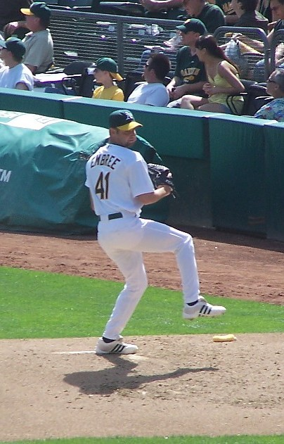 Alan Embree warms up in the Oakland bullpen 07:29, 27 September 2007 . . Gimpy56 . . 415×648 (91 KB)